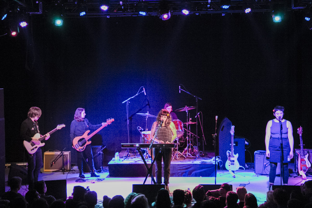 Waxahatchee brought their new album Ivy Tripp to the Sinclair on Wednesday, May 13, 2015. Fleabite and Girlpool opened. Photos ©2015 by Scott Murry.